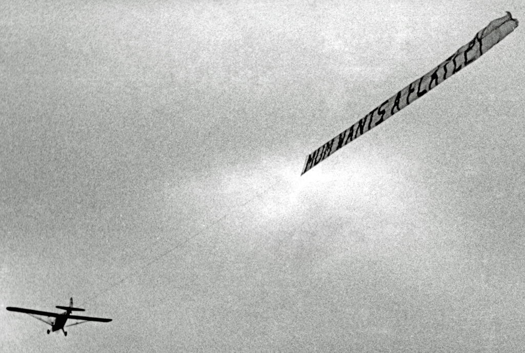 An Auster J/1N Alpha of Airviews Ltd towing an advertising banner away from Manchester Airport